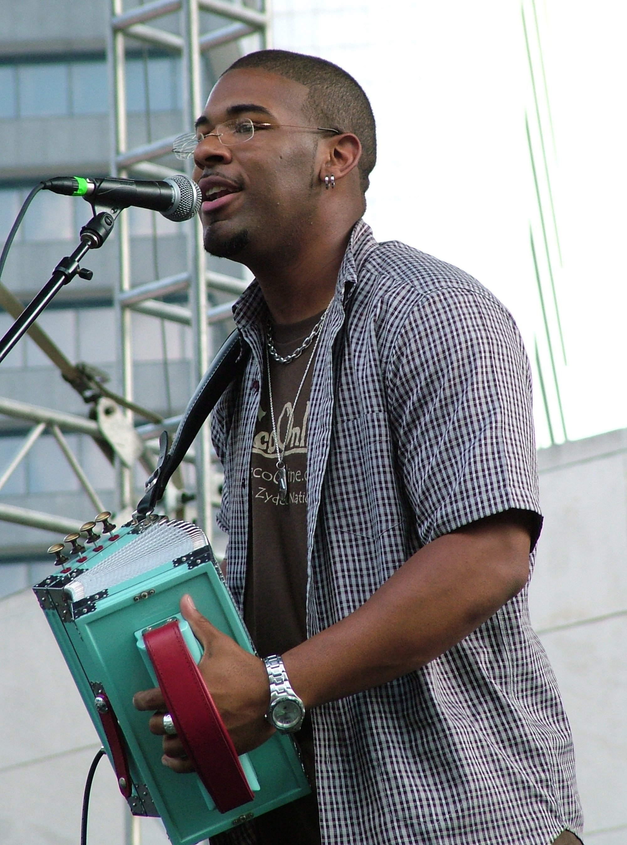 Chris Ardoin performing at City Stages in Birmingham, Alabama, United States